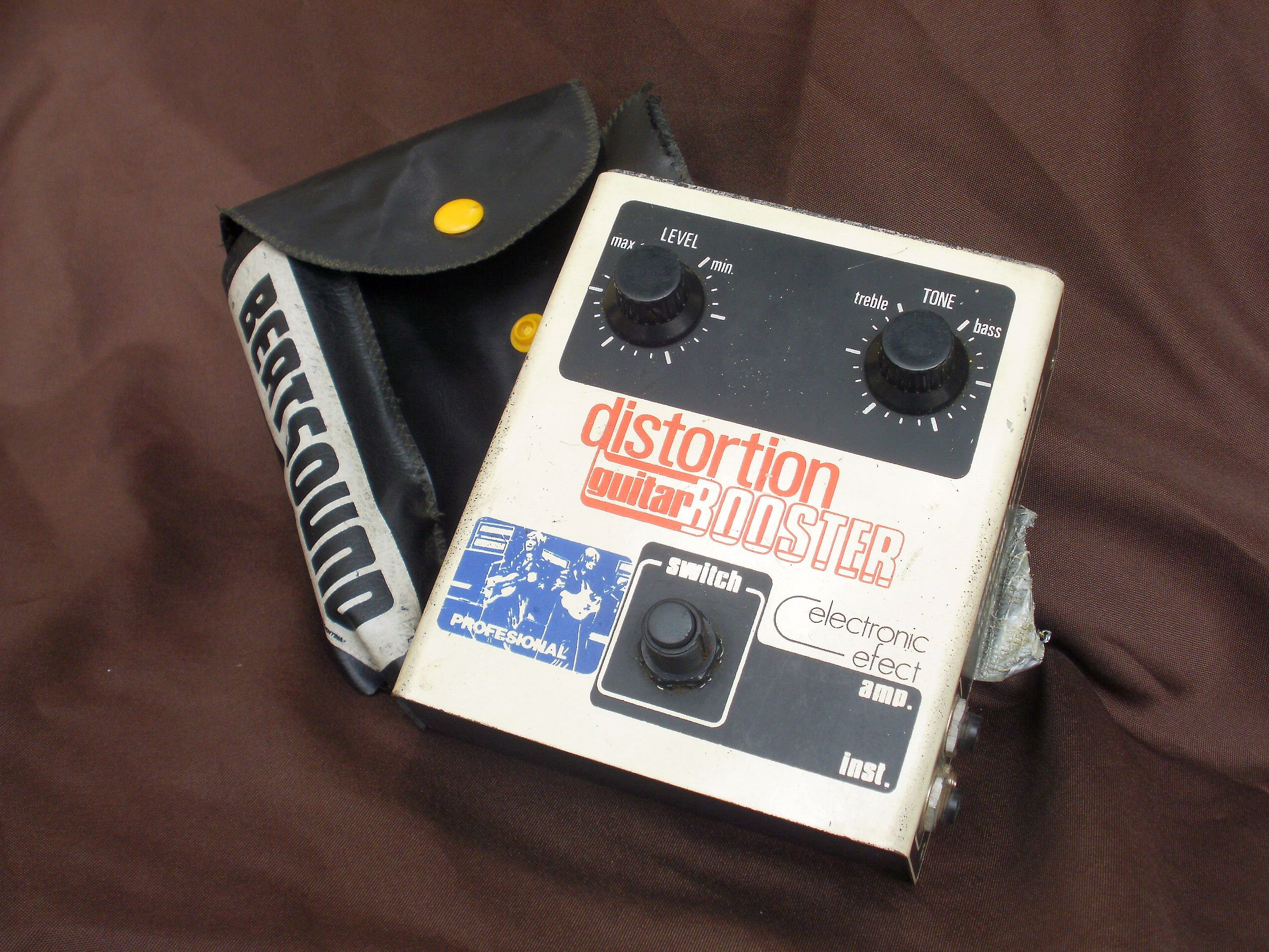 Beatsound Distortion Guitar Booster (con su funda original) Accesory for musical electronic instrument 77786OK BC547 x 2 unidades.